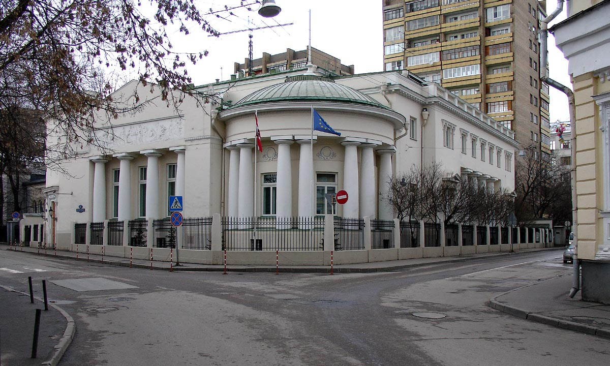 Mindovsky House, by Nikita Lazarev, 1905-1905 (Embassy of Austria), corner of Prechistensky and Starokonyushenny Lane